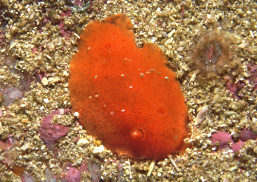 photograph of the red sponge nudibranch Rostanga elandsia taken in False Bay off the South Arican coast in 25m of water, using a Nikonos V camera